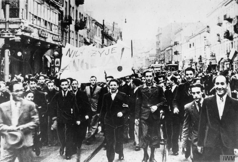 The German-soviet Invasion of Poland, 1939 Enthusiastic demonstrators marching through the streets of Warsaw when the British declaration of war against Germany was made known. The writing on the banner reads "Long Live England".